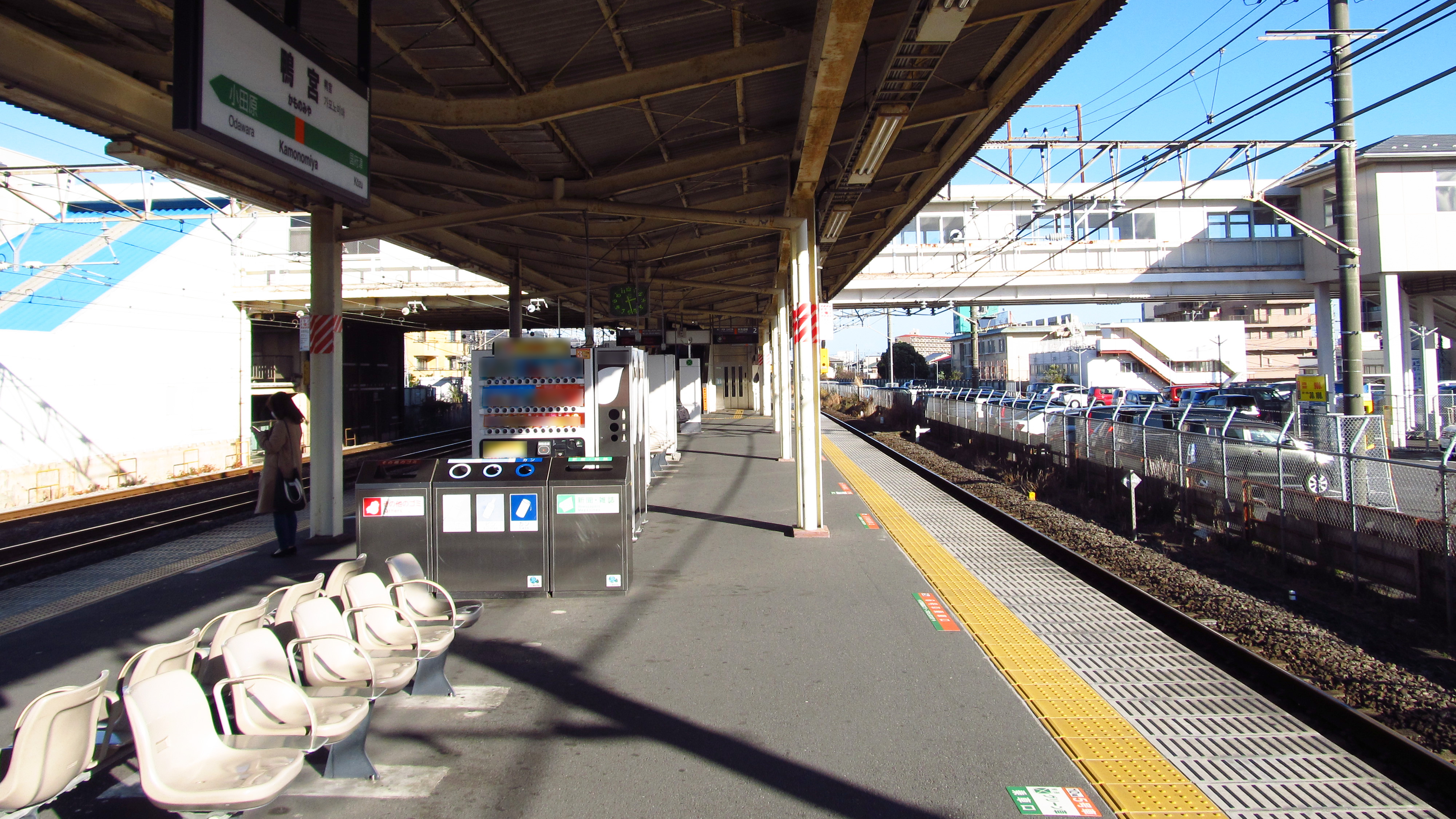 The platform at Kamonomiya Station on the Tōkaidō Line in Odawara city, Kanagawa prefecture, Japan